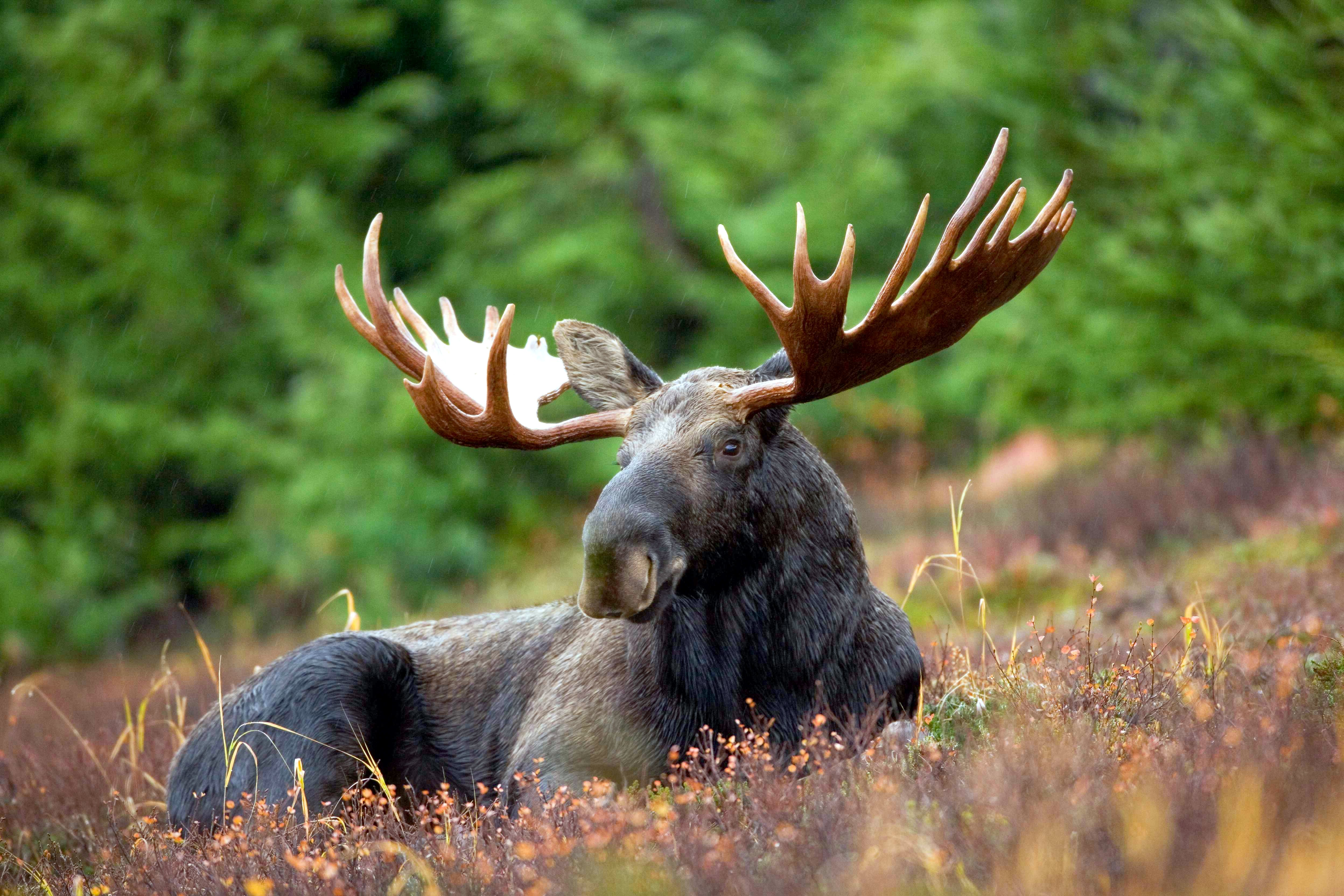 A male moose takes a rest in a field during a light rainshower.